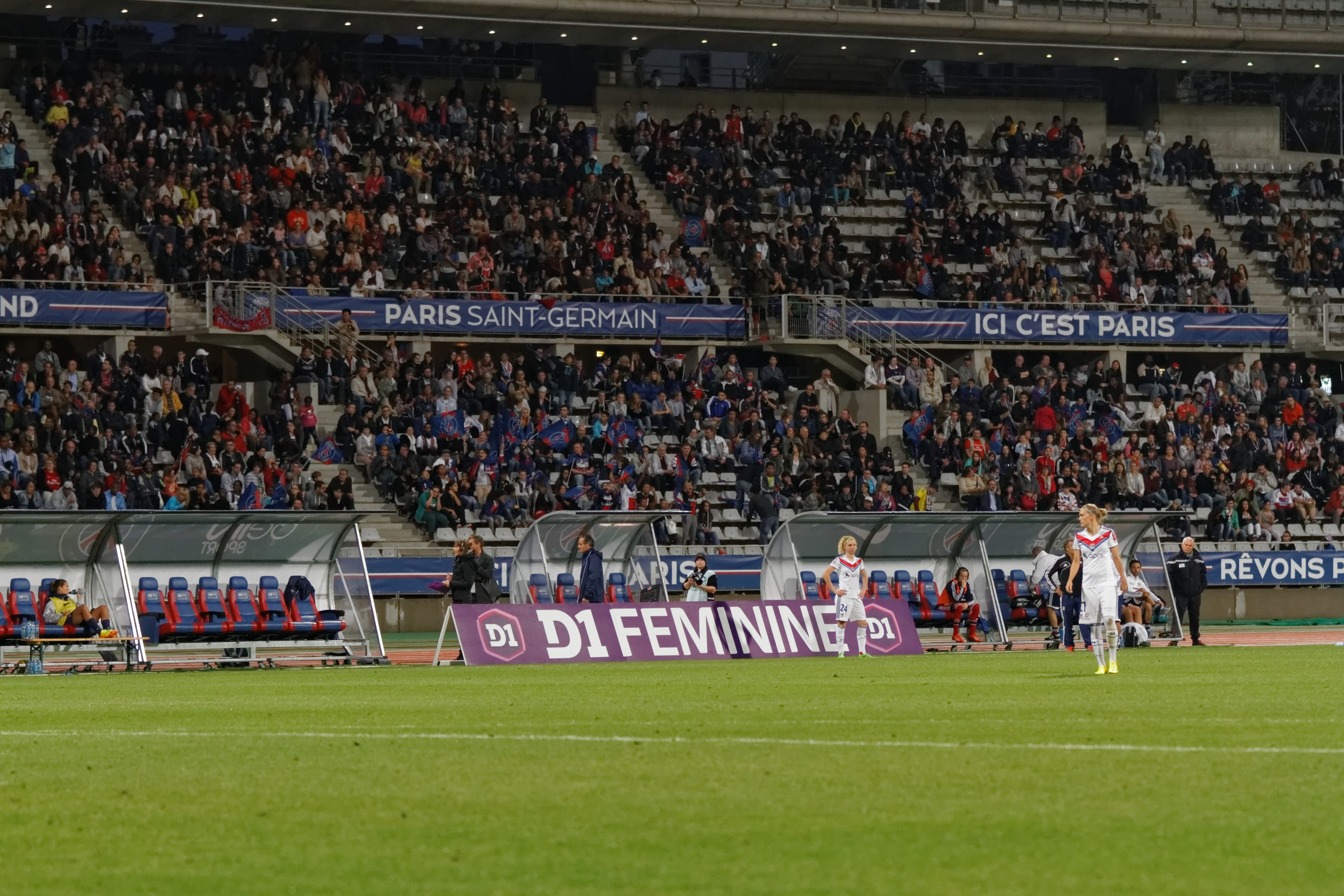 PSG-Lyon, September 29th, 2013.